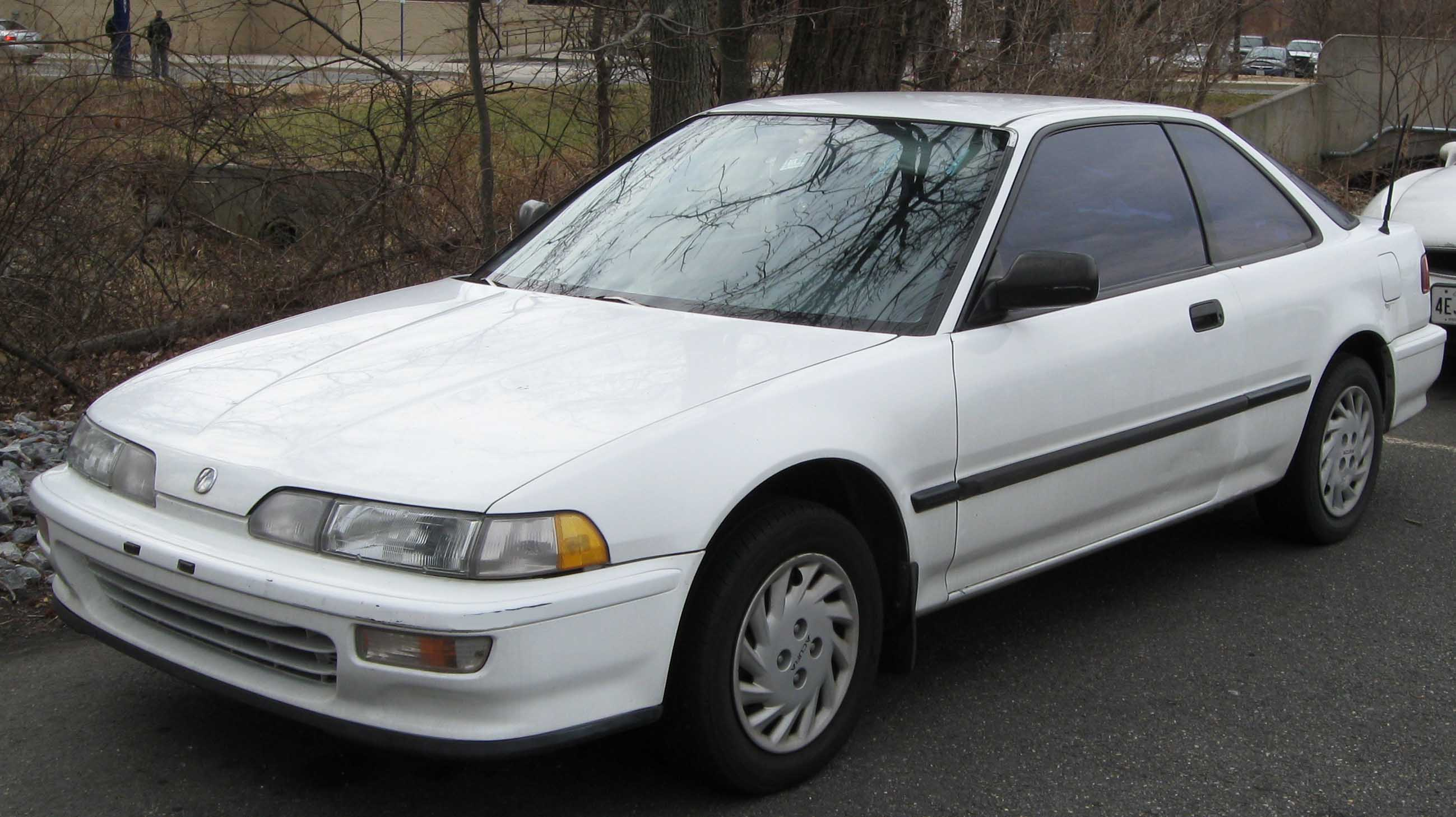 1990-1993 Acura Integra photographed in College Park, Maryland, USA.